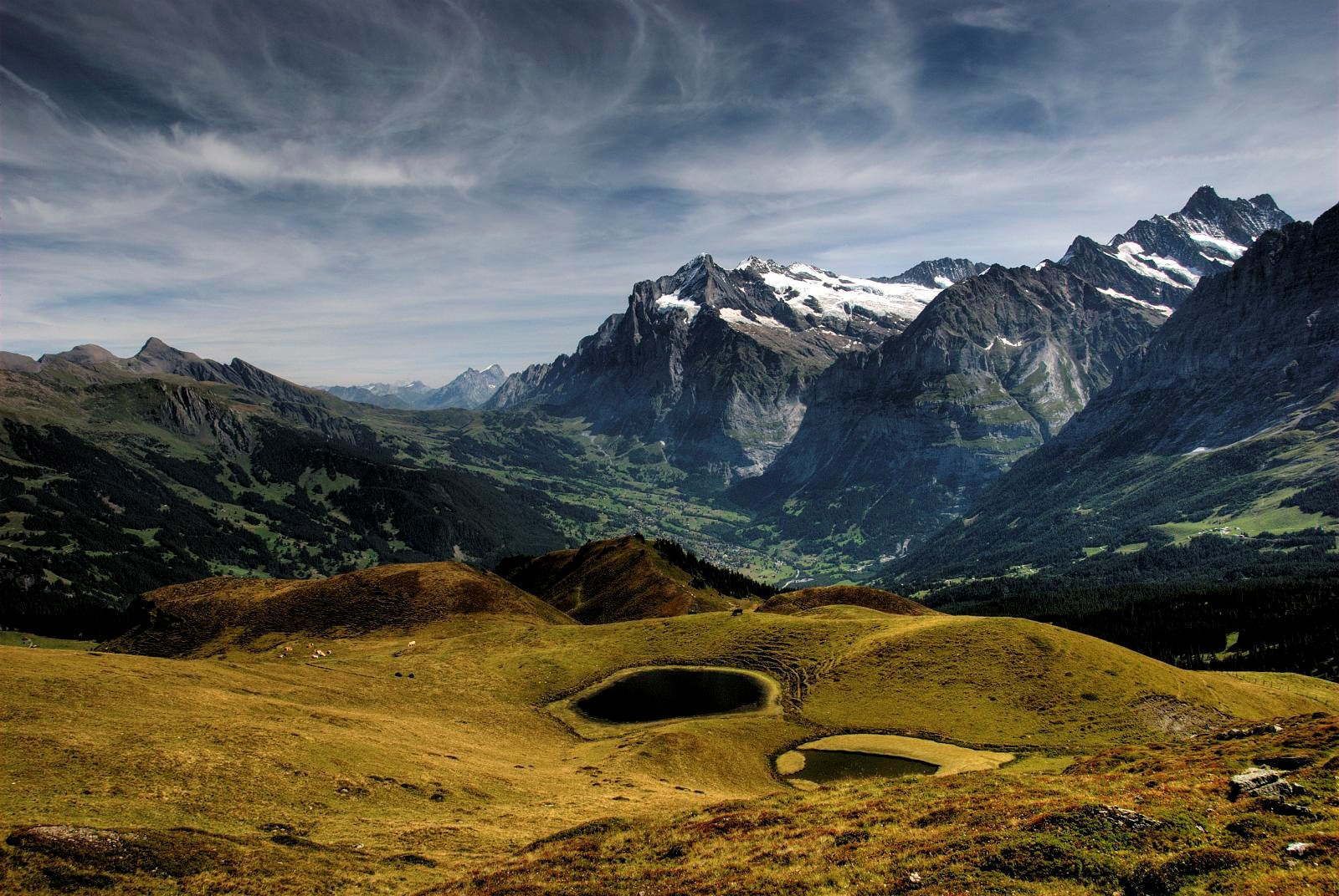 Wetterhorn, Grindelwald, view from Männlichen